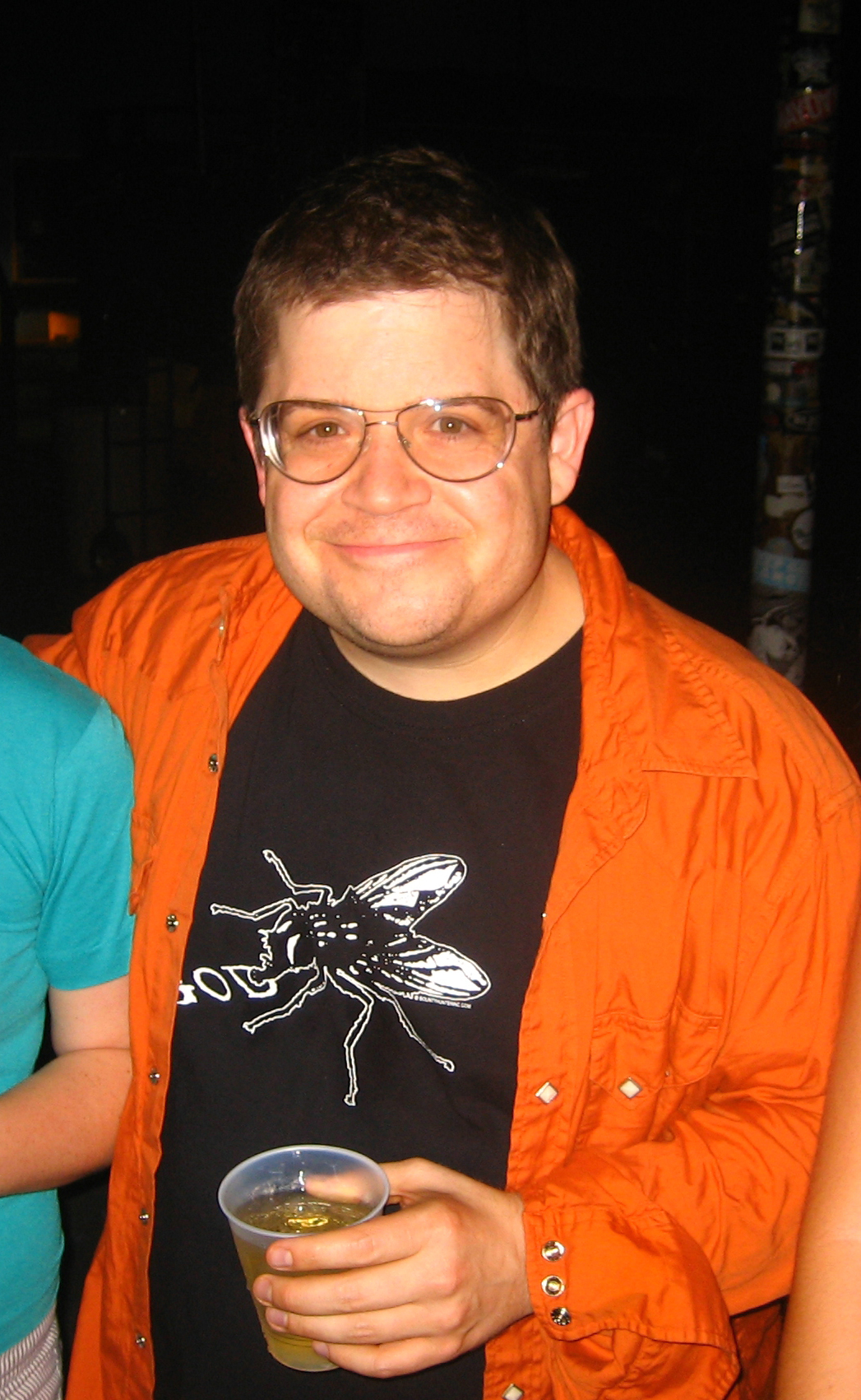 Comedian Patton Oswalt after a routine.